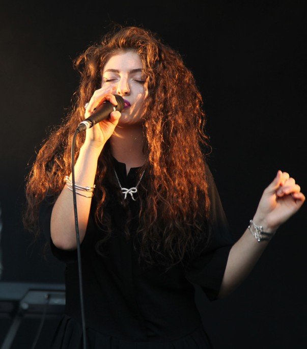 Lorde at the 2014 Sydney Laneway Festival